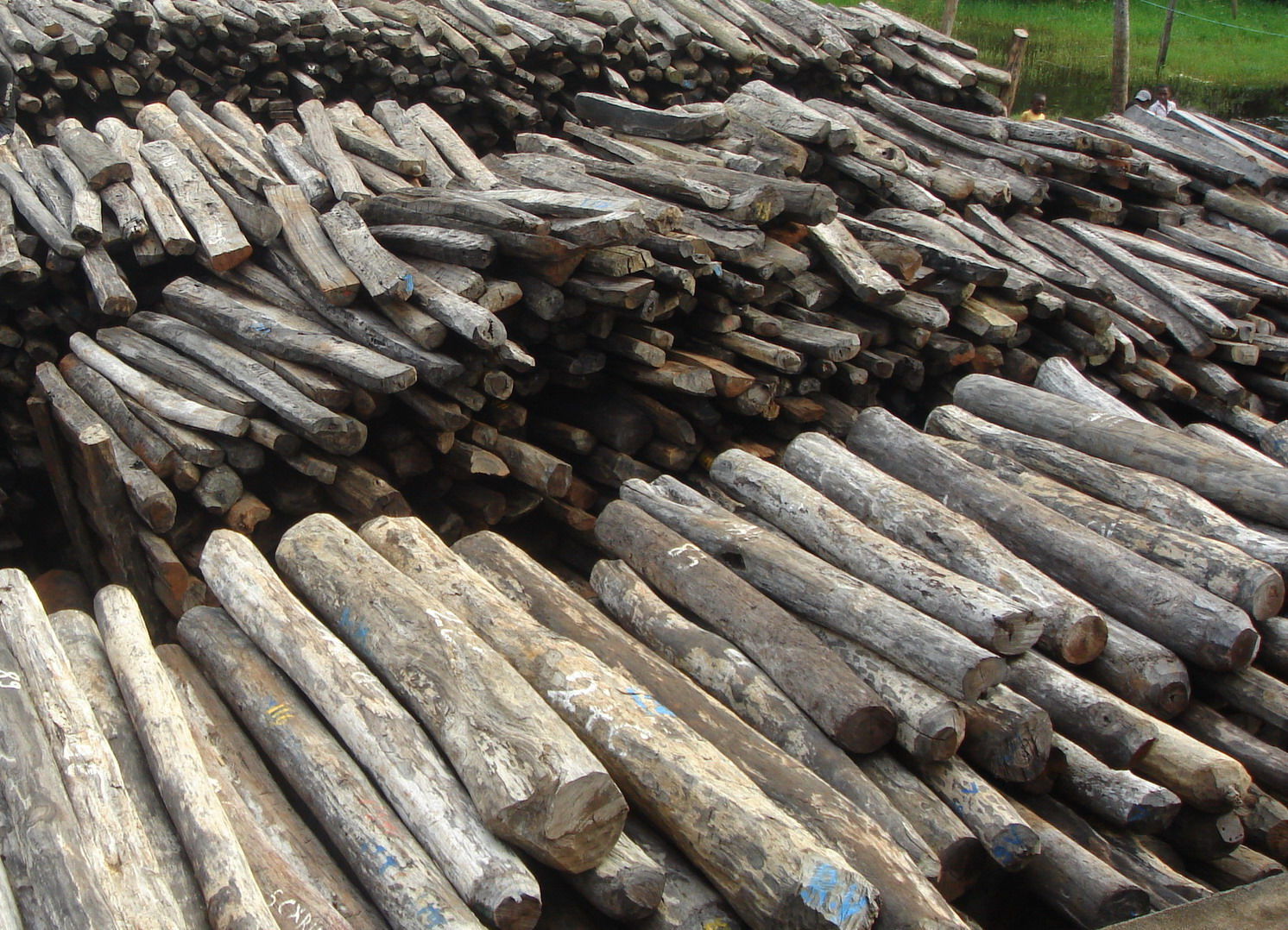 Illegal rosewood stockpiles in Antalaha, Madagascar